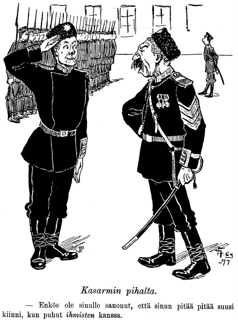 A satire drawn by Aleksander (Alex) Thiodolf Federley (12th July 1864 Turku – 17th November 1932). The words in the image are in english: "Haven't I said to you that you must keep your mouth shut when you're talking with people."